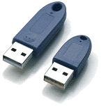 This photo shows two Matrix dongles in different case sizes for the same purpose: Software license protection against software piracy. This photo is in article "Matrix Software License Protection System".